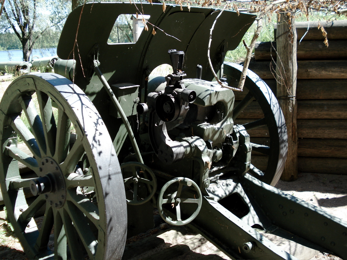 Soviet 122 mm howitzer Model 1909-1937, displayed in Hämeenlinna Artillery Museum. The Model 1909 howitzer was based on a German Krupp design. They were produced in Imperial Russia and then in the Soviet Union. As was typical for most World War I artillery pieces, the gun was modernised from 1937 onwards, the resulting guns called Model 09-37. Photo taken on June 18, 2006. Source: Photo by me, User:Balcer.